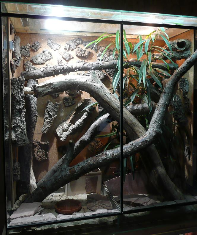 Varanus gilleni terrarium